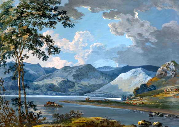 This view of Ullswater was made on a tour of the Lake District; at least one other picture from this trip is recorded. In 1781 Barret exhibited a painting at the Royal Academy of a View of Windermere Lake, in Westmoreland, the effect, the sun beginning to appear in the morning, with the mists breaking and dispersing (no.40). A gouache of a similar view of Ullswater, in the National Gallery of Ireland, was the source for an engraving by Samuel Middiman for Select views in Great Britain.